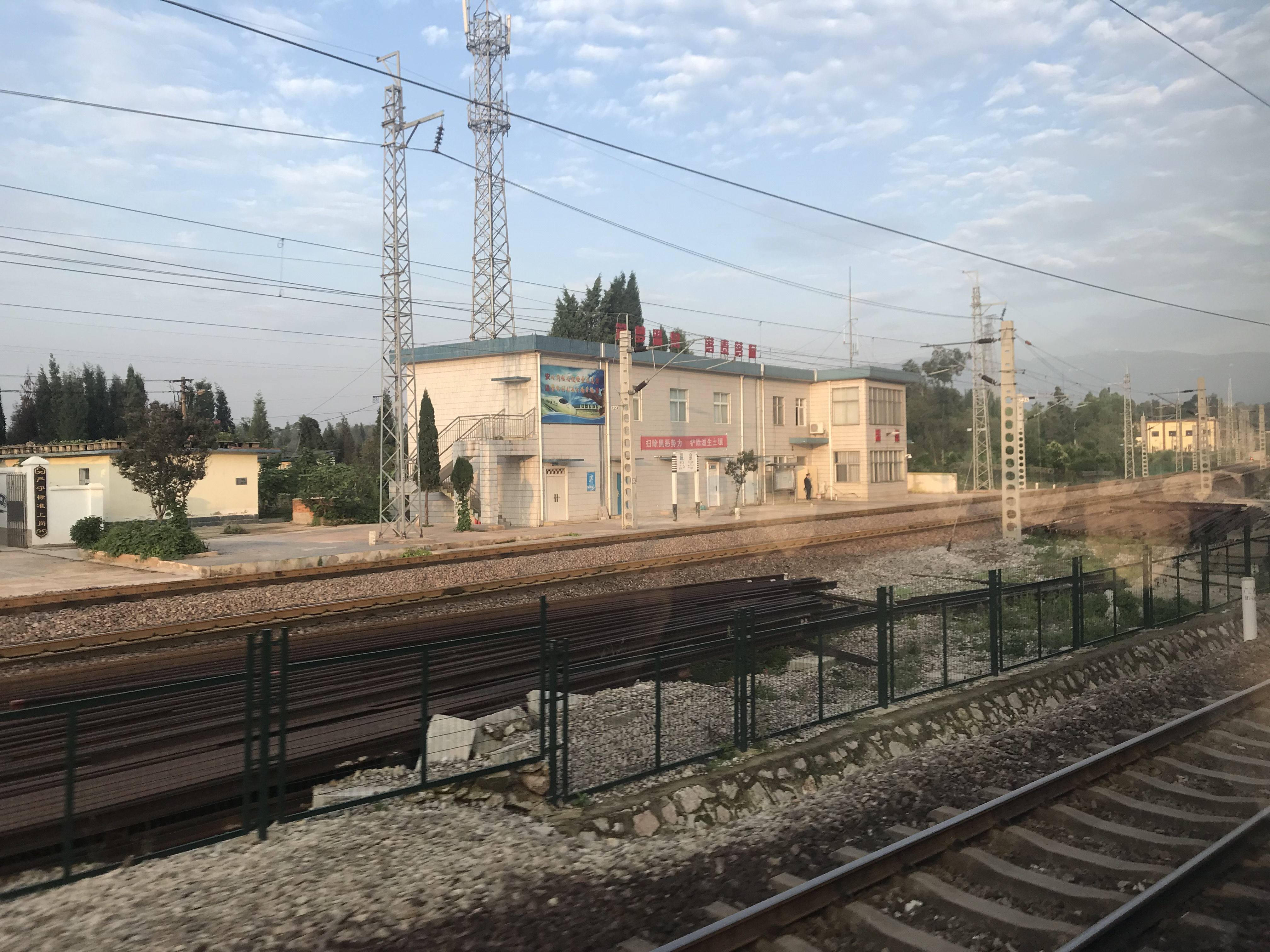 201908 Station Building of Wenquan